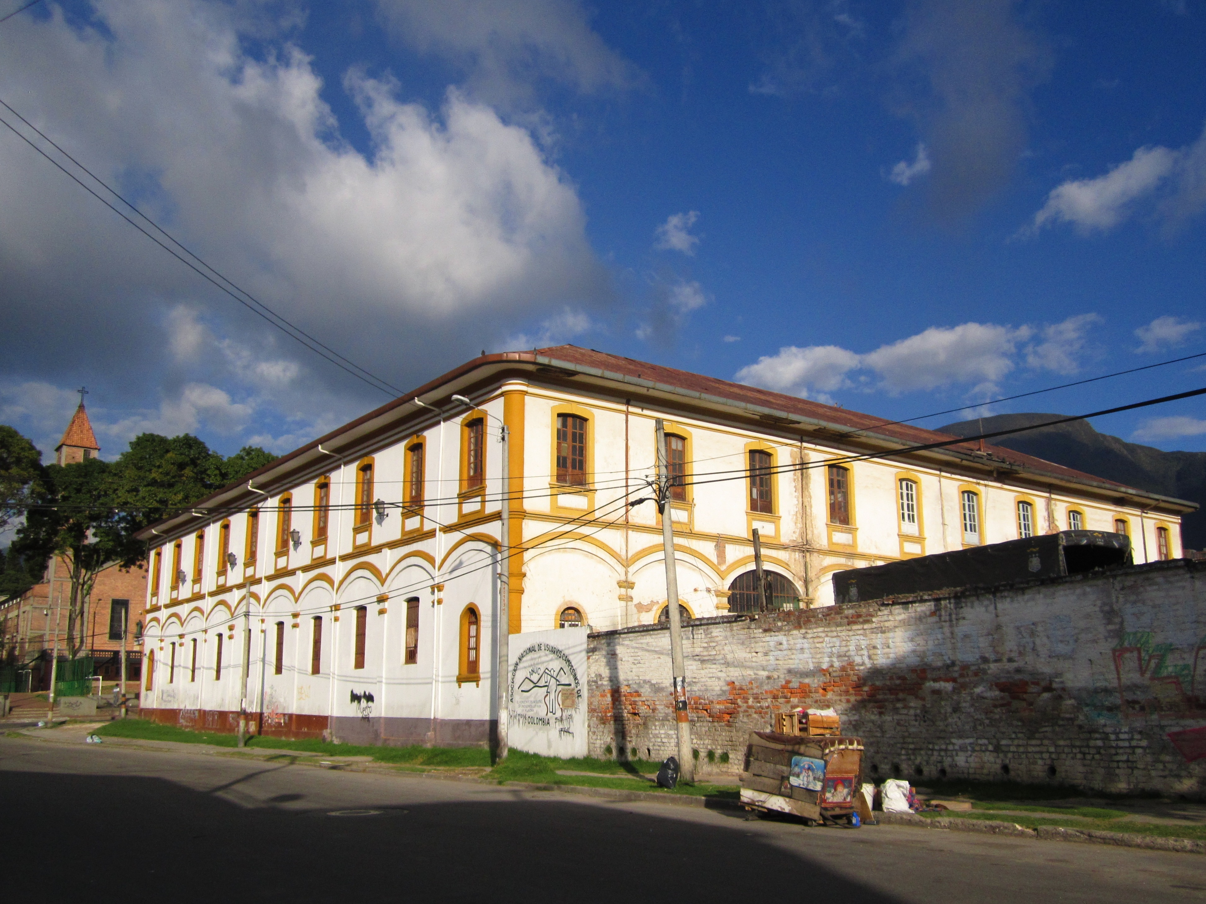 Carrera 5A con calle 9 sur, parque del barrio Villa Javier, localidad de San Cristóbal, sur de Bogotá.